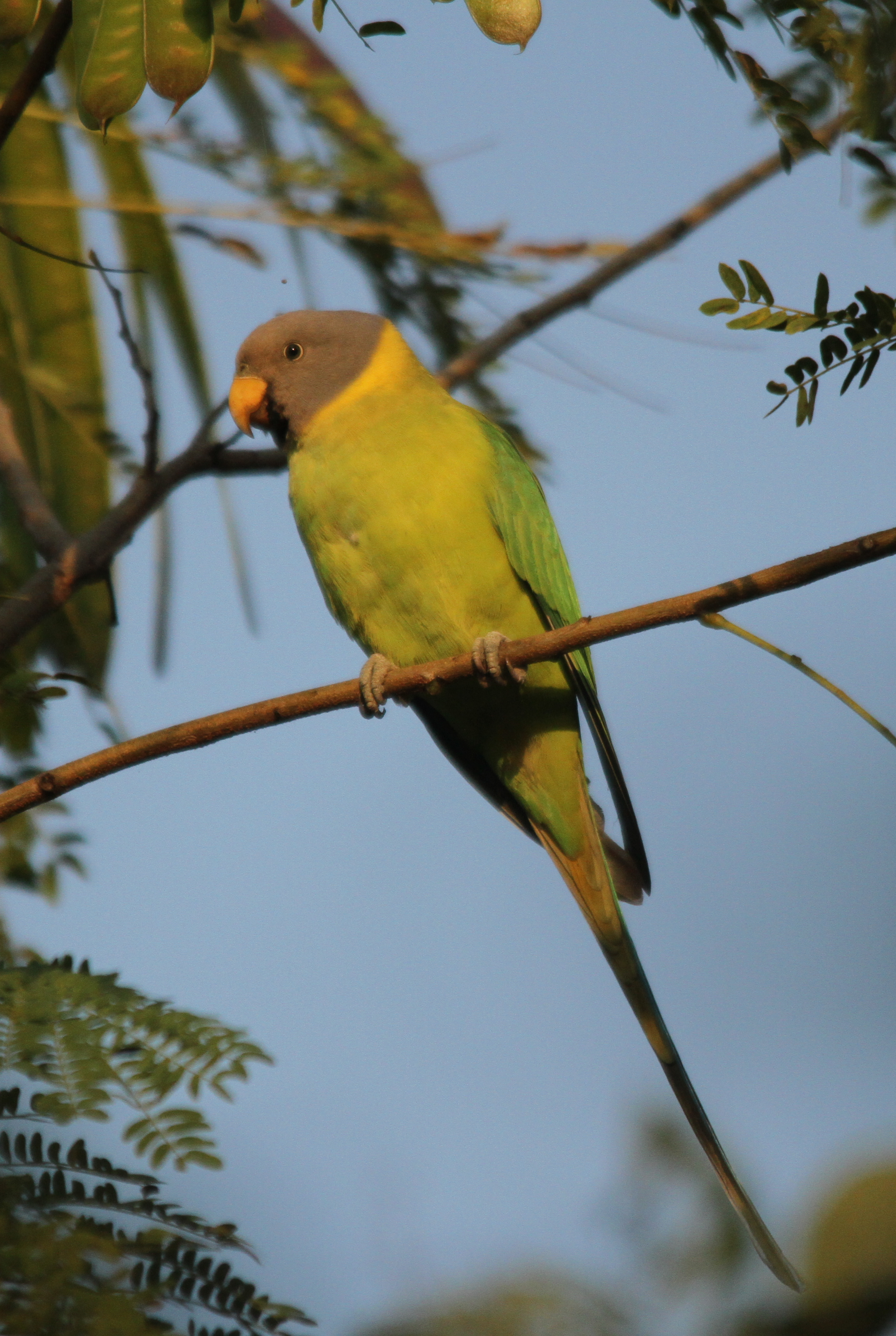 birds of India